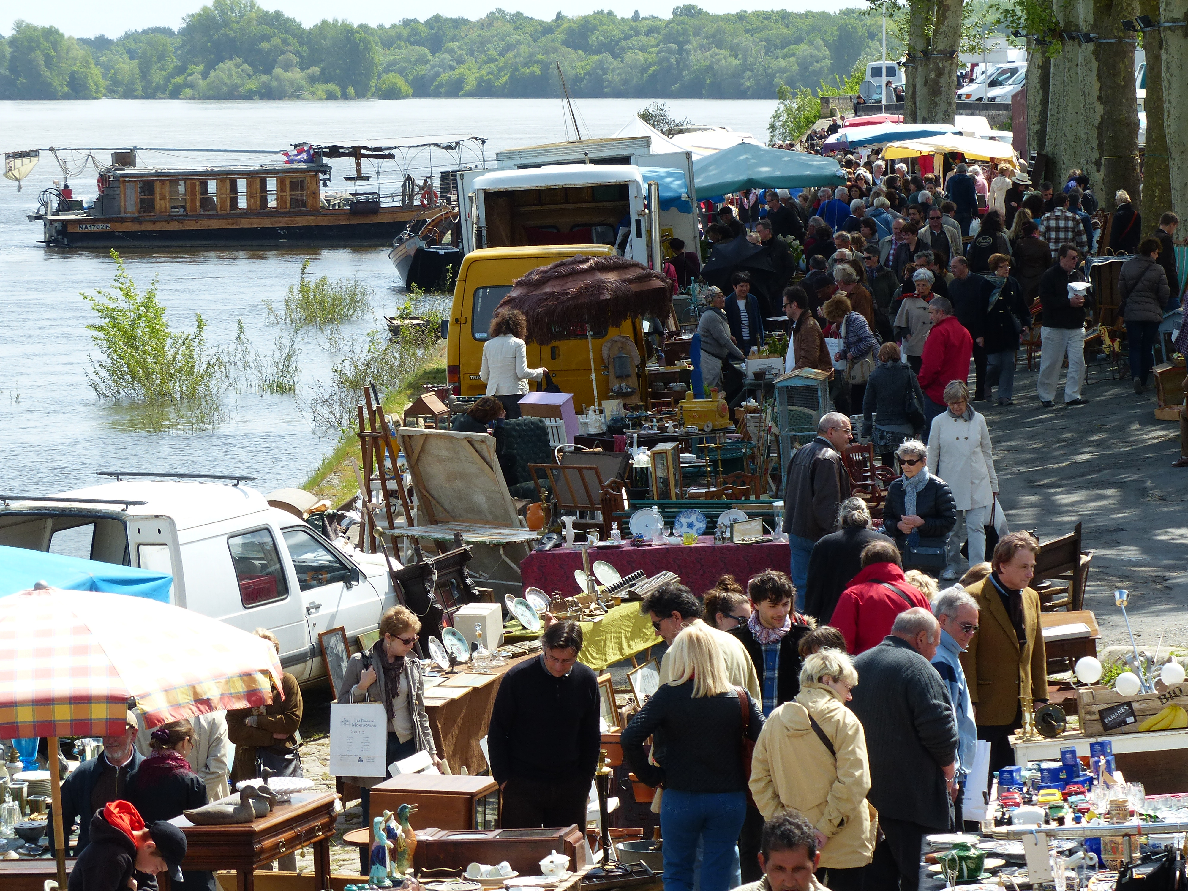 The Montsoreau flea market, Loire Valley, takes place all year, every second Sunday of the month. Organized on the quays of the vieux-port of Montsoreau (listed amongst the most beautiful villages of France), it quickly became the most important flea market in the Loire Valley.